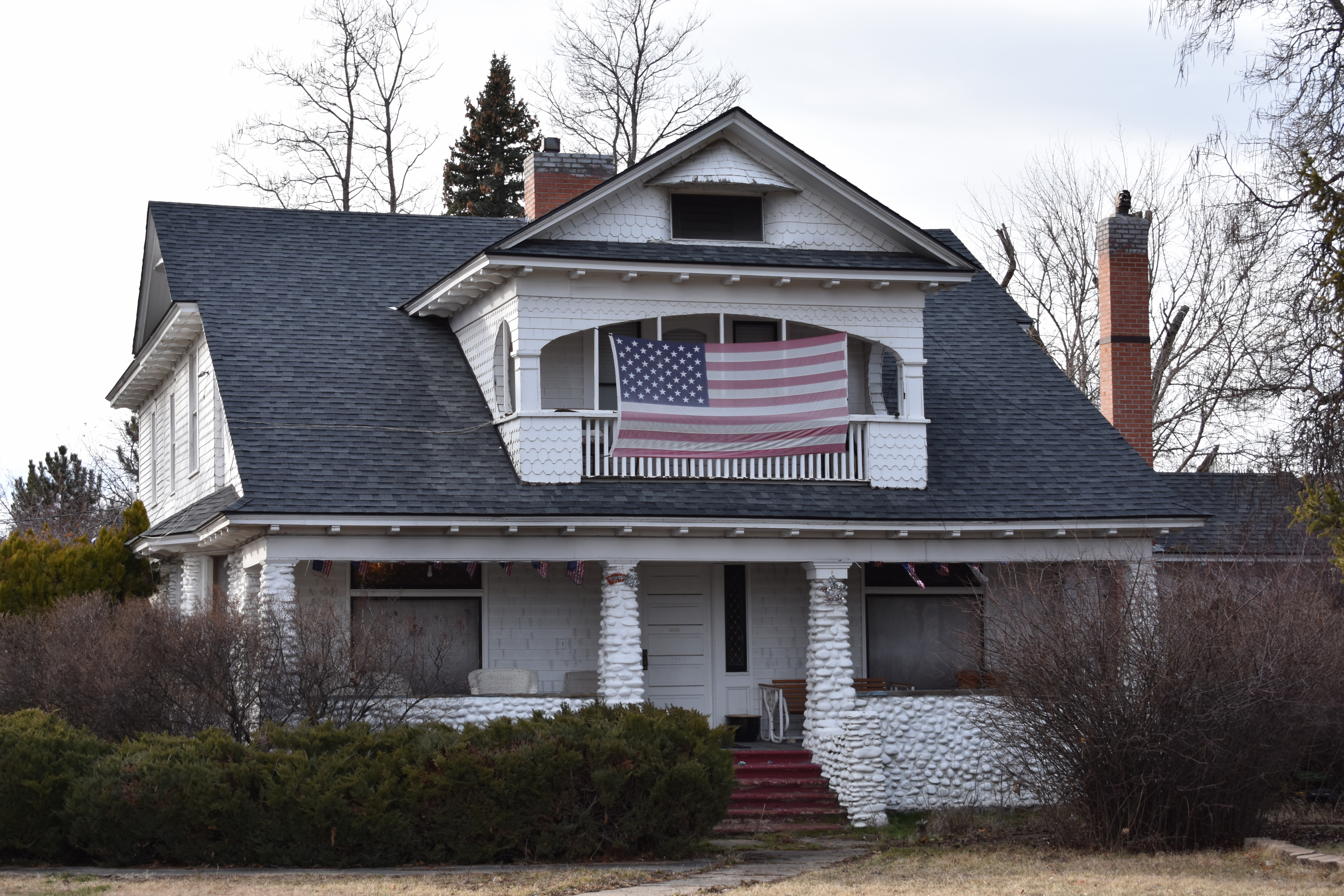 The Nathan Smith House (1900) in Boise, Idaho, was designed by John E. Tourtellotte and is listed on the National Register of Historic Places.